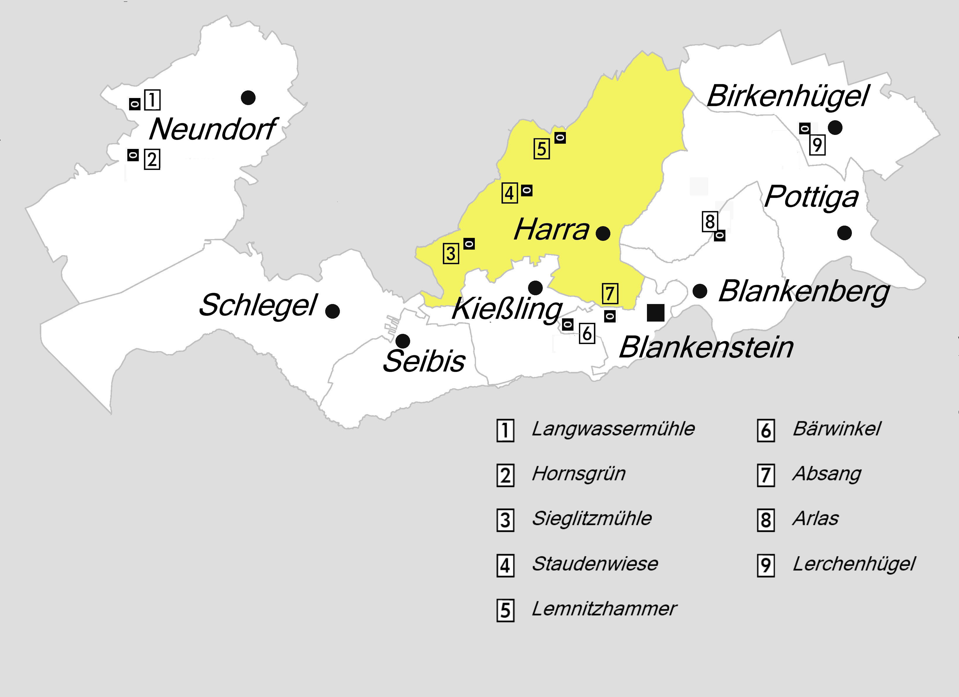 District-Maps of Rosenthal am Rennsteig